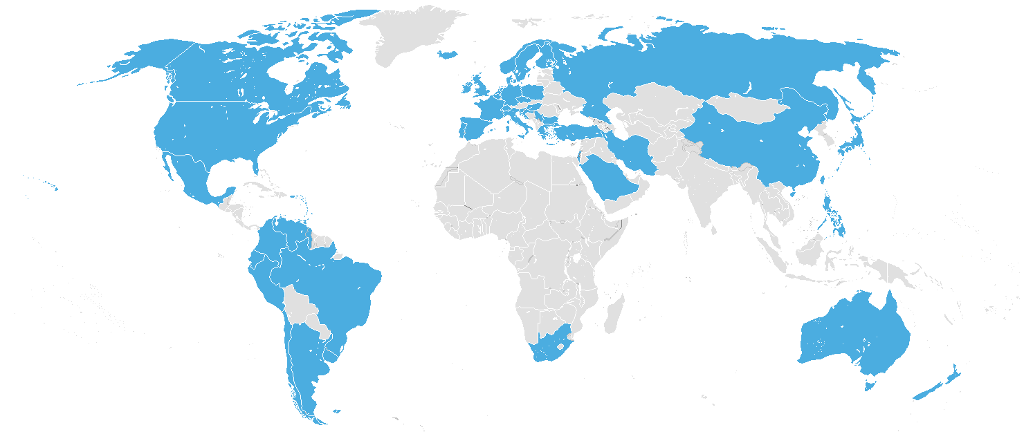 Colored countries are where Downton Abbey is broadcasted. Based on File:BlankMap-World.png